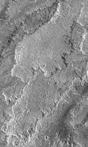 Lava flow from the south slope of Arsia Mons, down in the Daedalia Planum region, as seen by Odyssey's THEMIS. Coordinates for image are 19.5 degrees south and 121.6 degrees west.